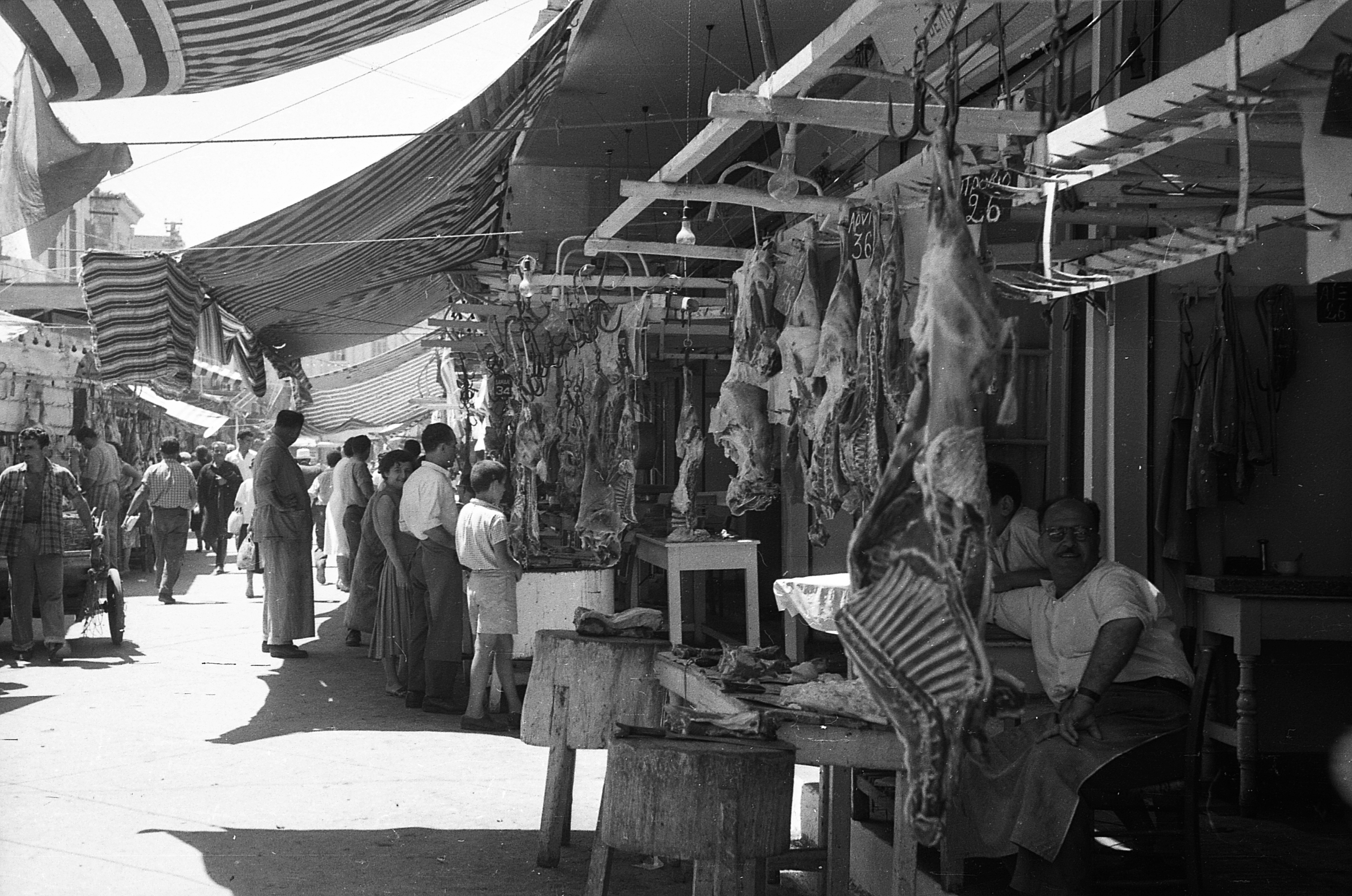 Location: Greece, Heraklion Tags: market